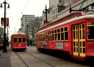 No more Street Car Named Desire- New Orleans 2/2005